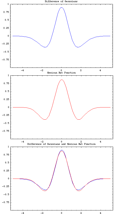 Comparison of Difference of Gaussians and Mexican Hat Function, intended to illustrate that DoG is a reasonable approximation to MHF.